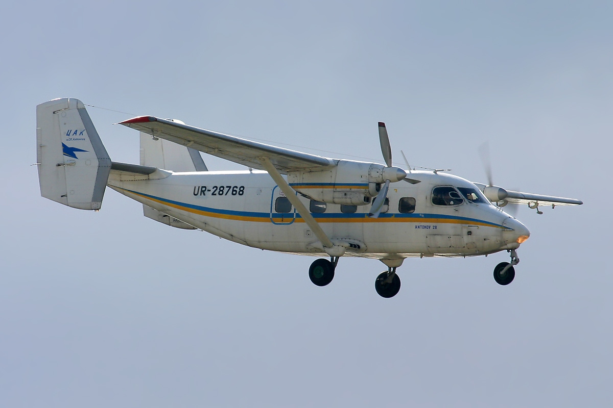 AviaSvit-XXI: Fly-by with the right side engine shut down and propeller feathered.